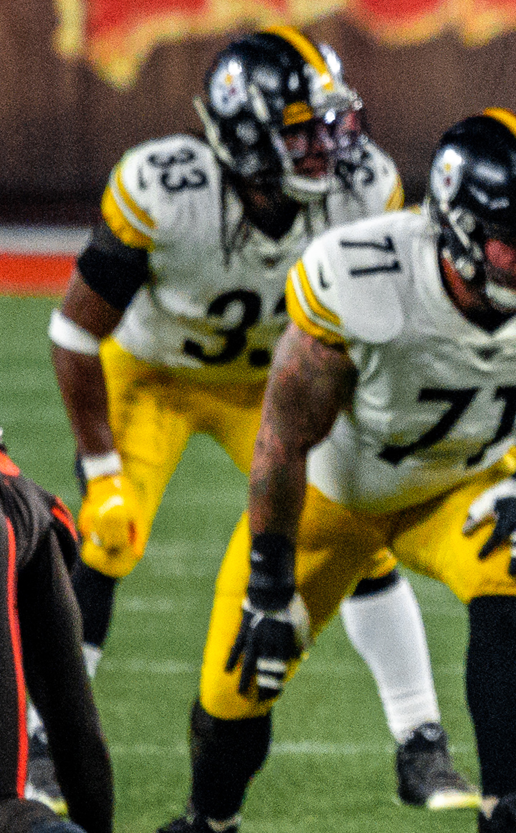 Steelers vs Browns 2019